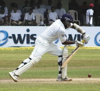 Cropped image of Mahela Jayawardene